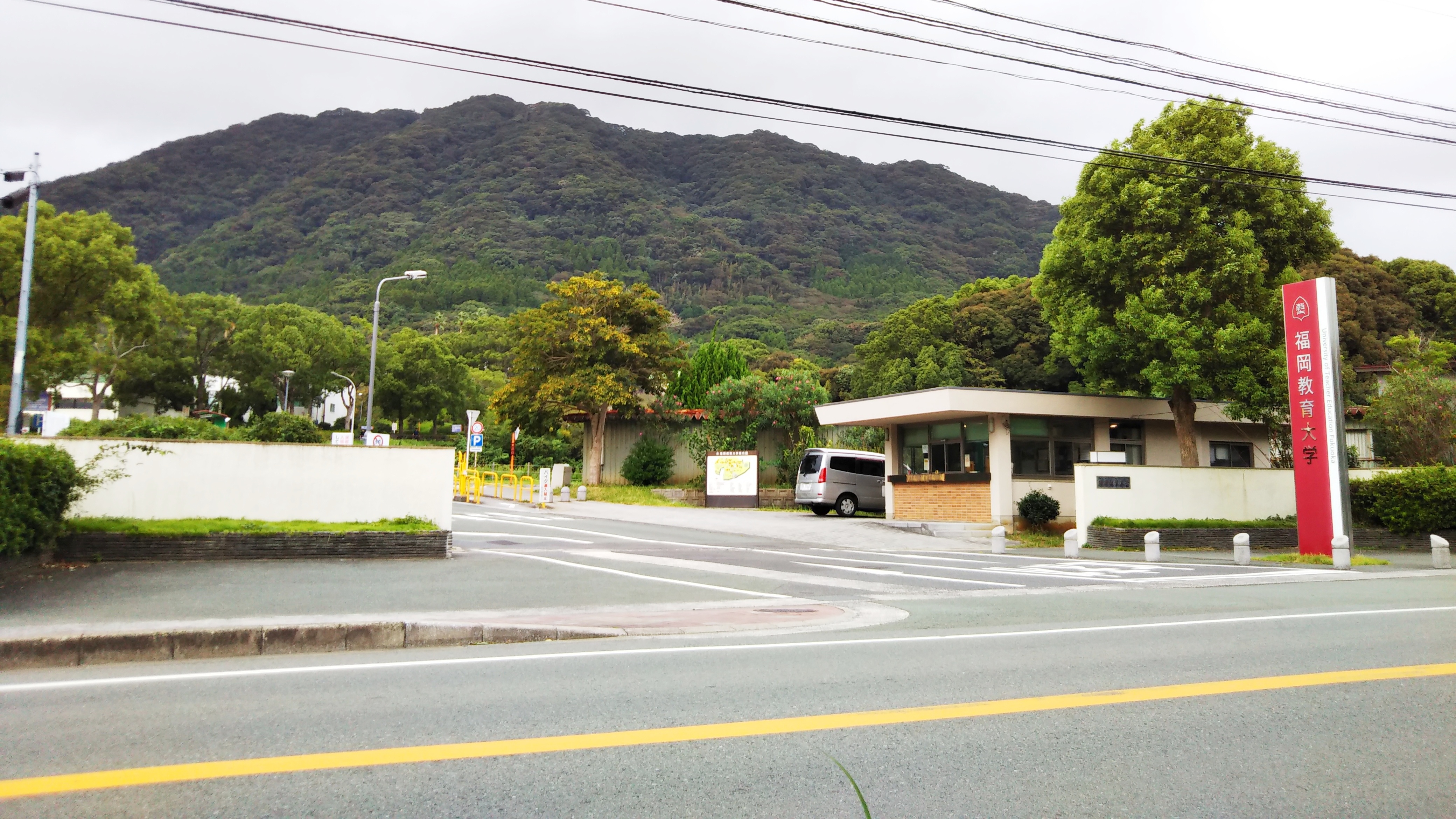 Main entrance to the University of Teacher Education Fukuoka located in Munakata, Fukuoka, Japan.